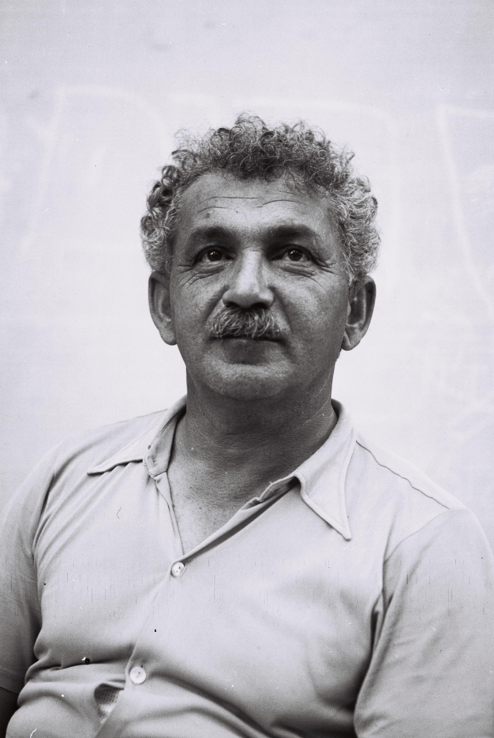 Original Description:PORTRAIT OF THE LABOUR LEADER BERL KATZENELSON